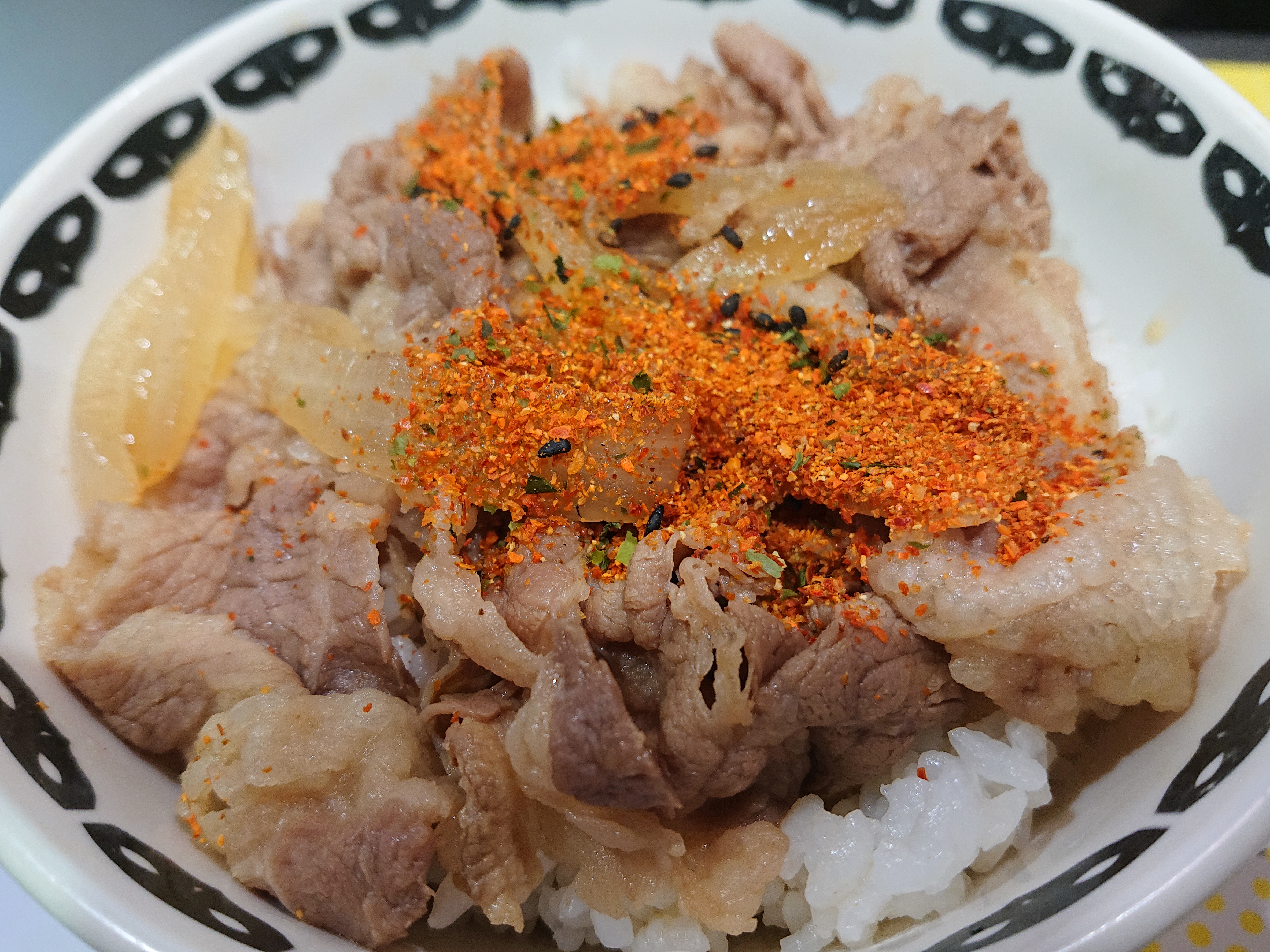 Gyudon with Shichimi